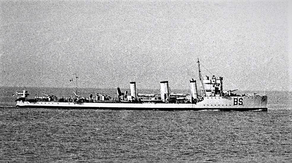 The destroyer Angelo Bassanini in navigation